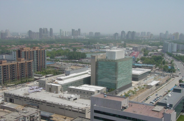 Photograph of Chancery Office Building Showing Glass Curtain Wall